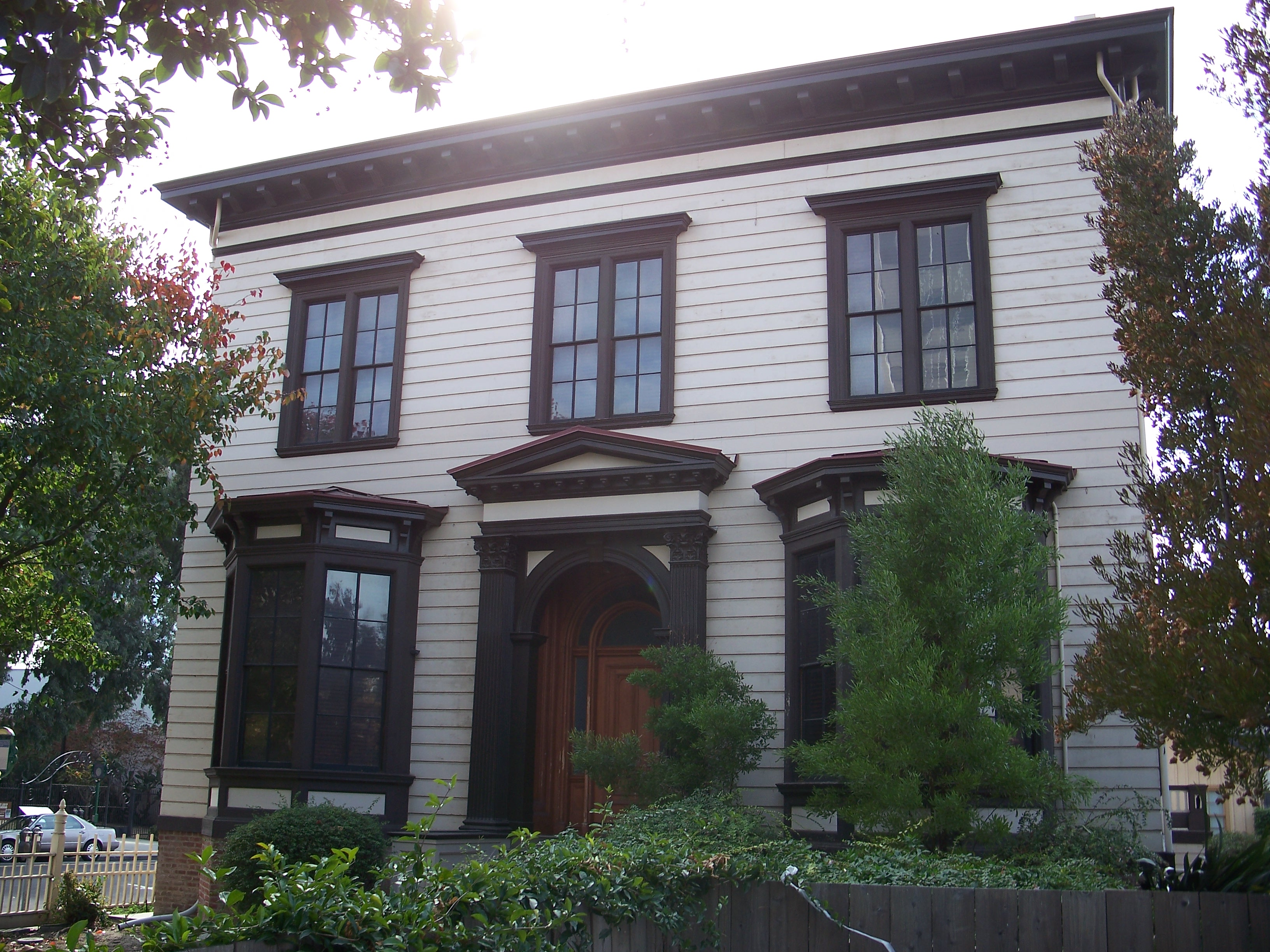 Thomas Fallon house. 175 West Saint John Street. San Jose, California, USA